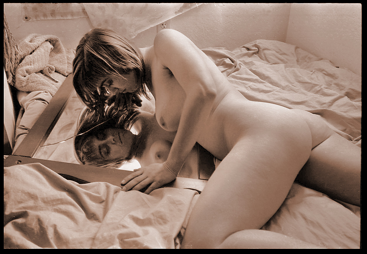 Black and white fine art photograph of nude woman in bed looking into a mirror